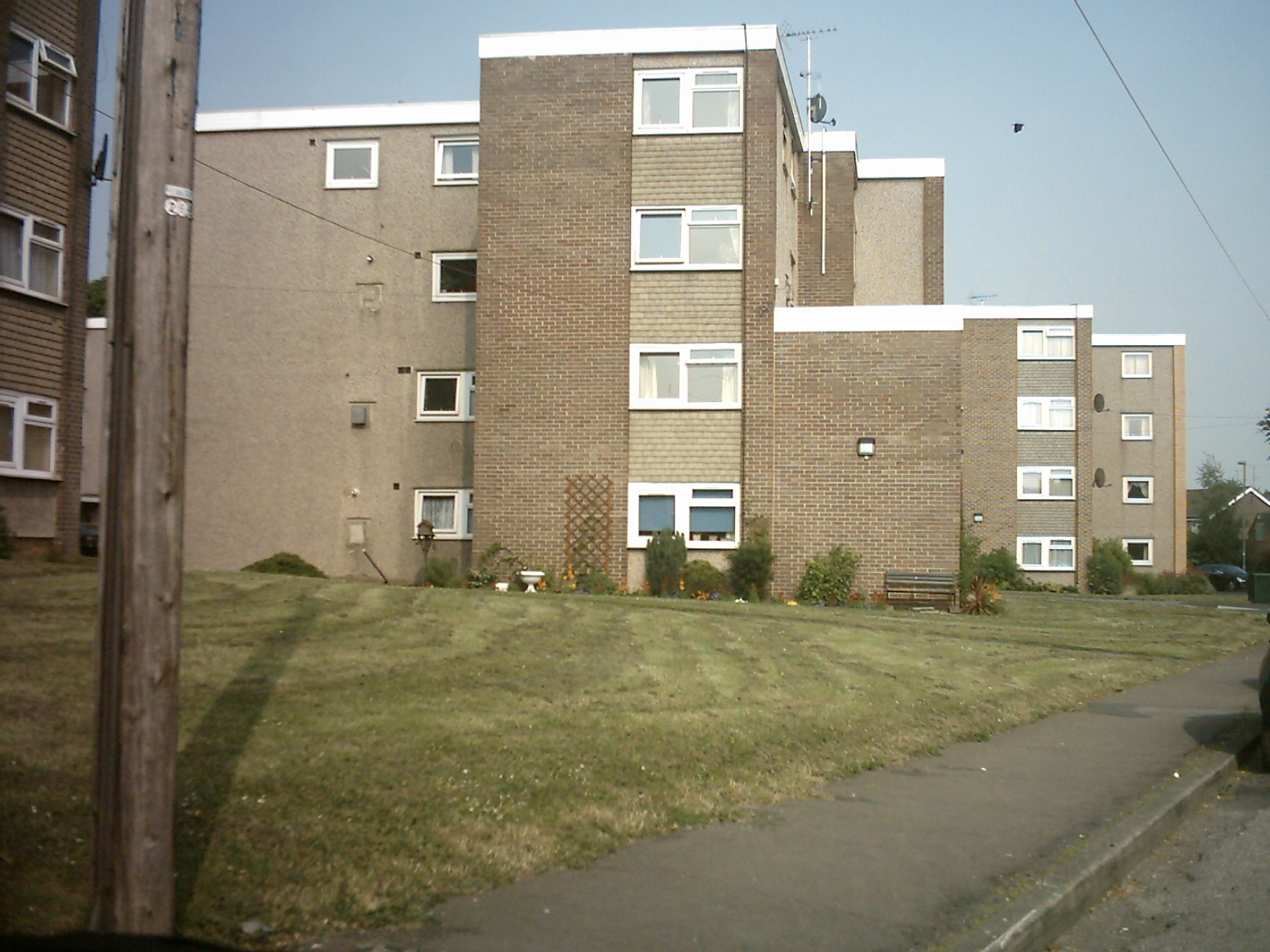 Medium rise council flats in Wetherby, West Yorkshire. Flats shown are Fairview House, Hodgeson House and Norfolk House